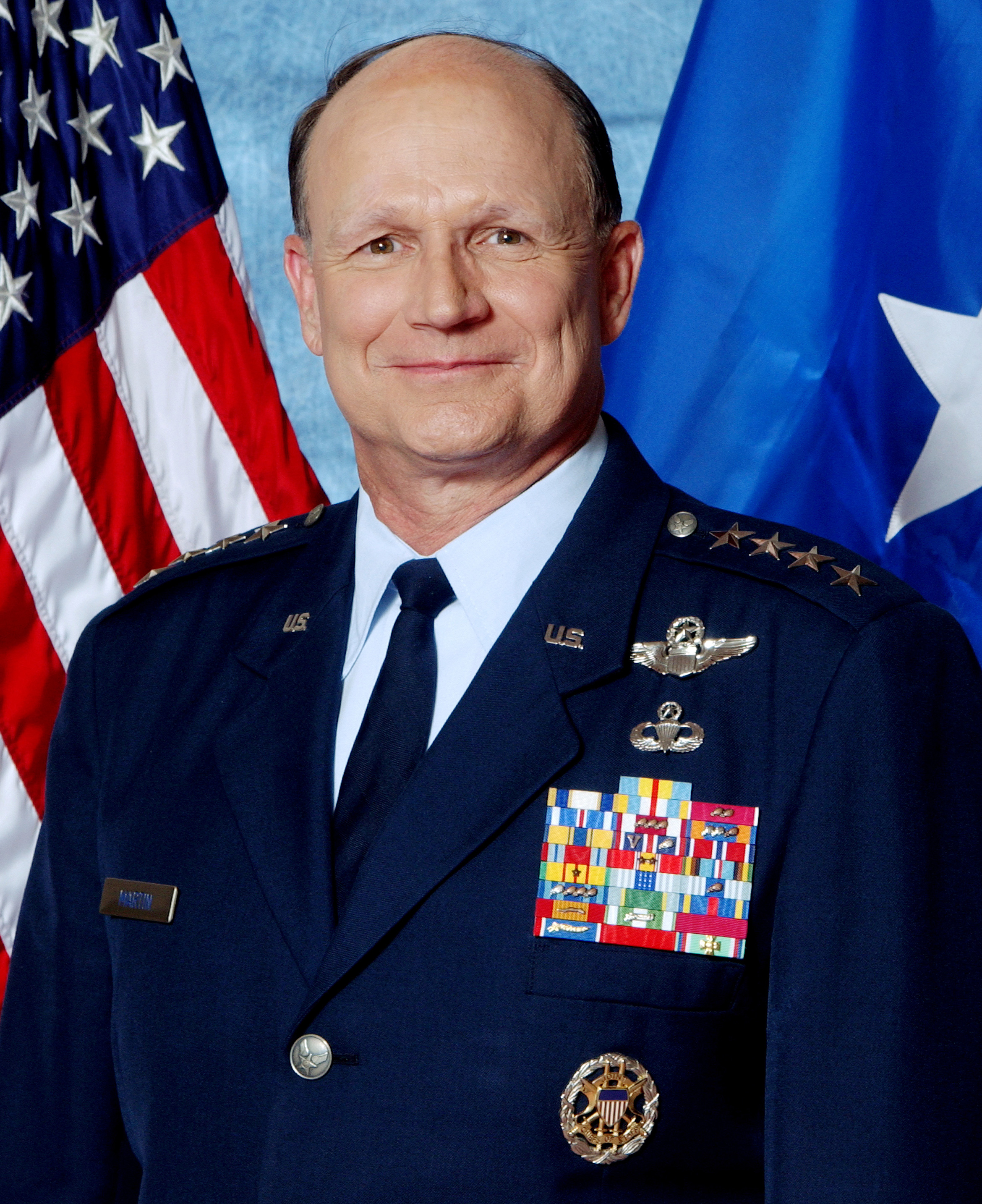 General Gregory S. Martin from [1]